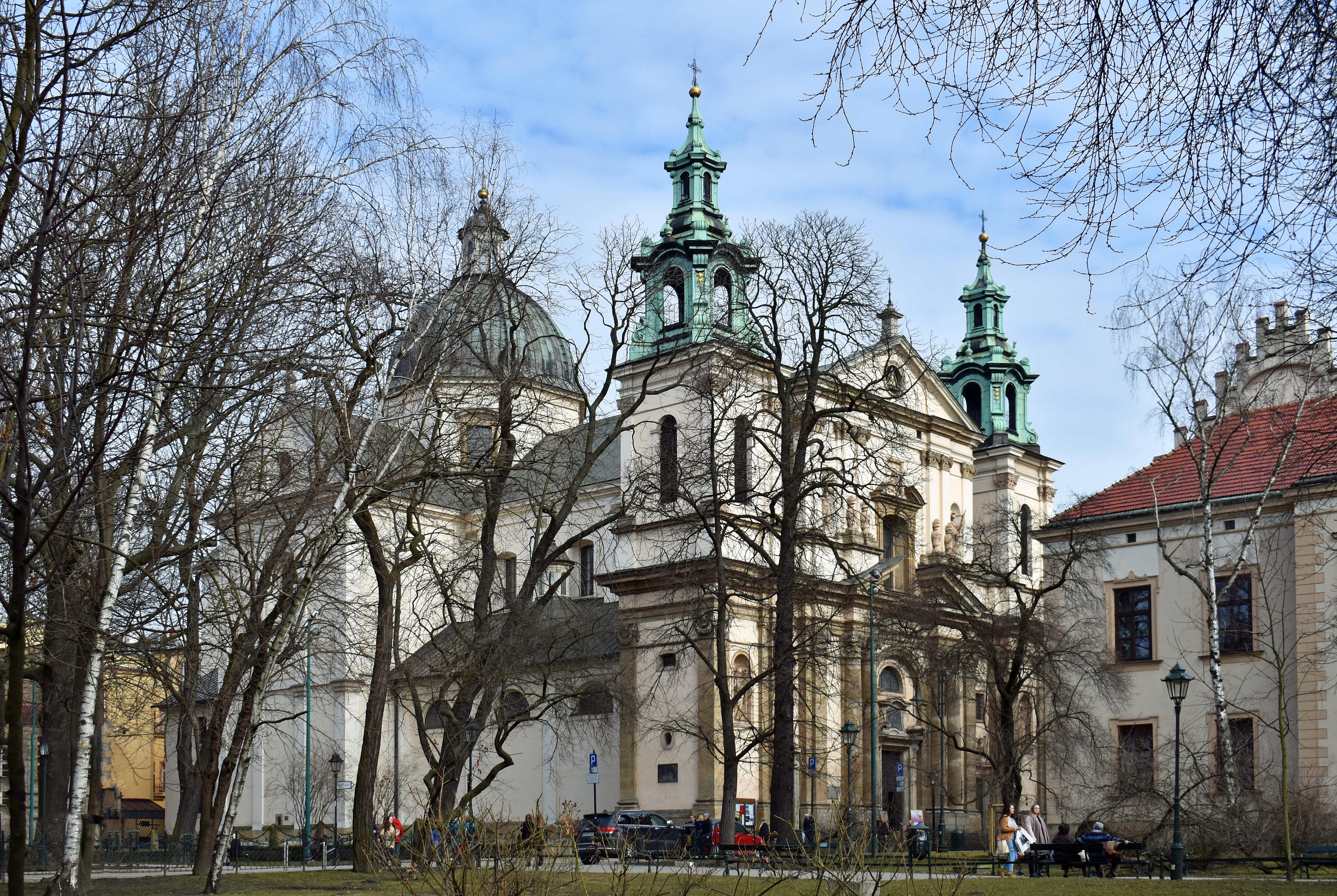 Church of St. Anne, 13 św. Anny street, Old Town, Krakow, Poland